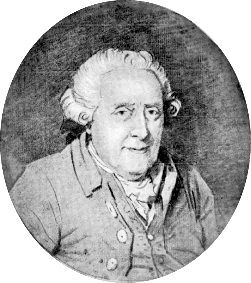 Photo of Wilhelm Friedemann Bach from the book Wilhelm Friedemann Bach : sein Leben und seine Werke, mit thematischem Verzeichnis seiner Kompositionen und zwei Bildern This work is in the public domain in the United States and is able to be viewed and downloaded freely by those in the US. However, HathiTrust appears to use some type of a system that limits one's viewing and downloading by IP number. Because of this, the information may not display properly at the HathiTrust site for those outside of the US. I have uploaded a copy of the complete page showing the image, and the front page with the copyright and printing information on it. The book is in German and was published in Leipzig.